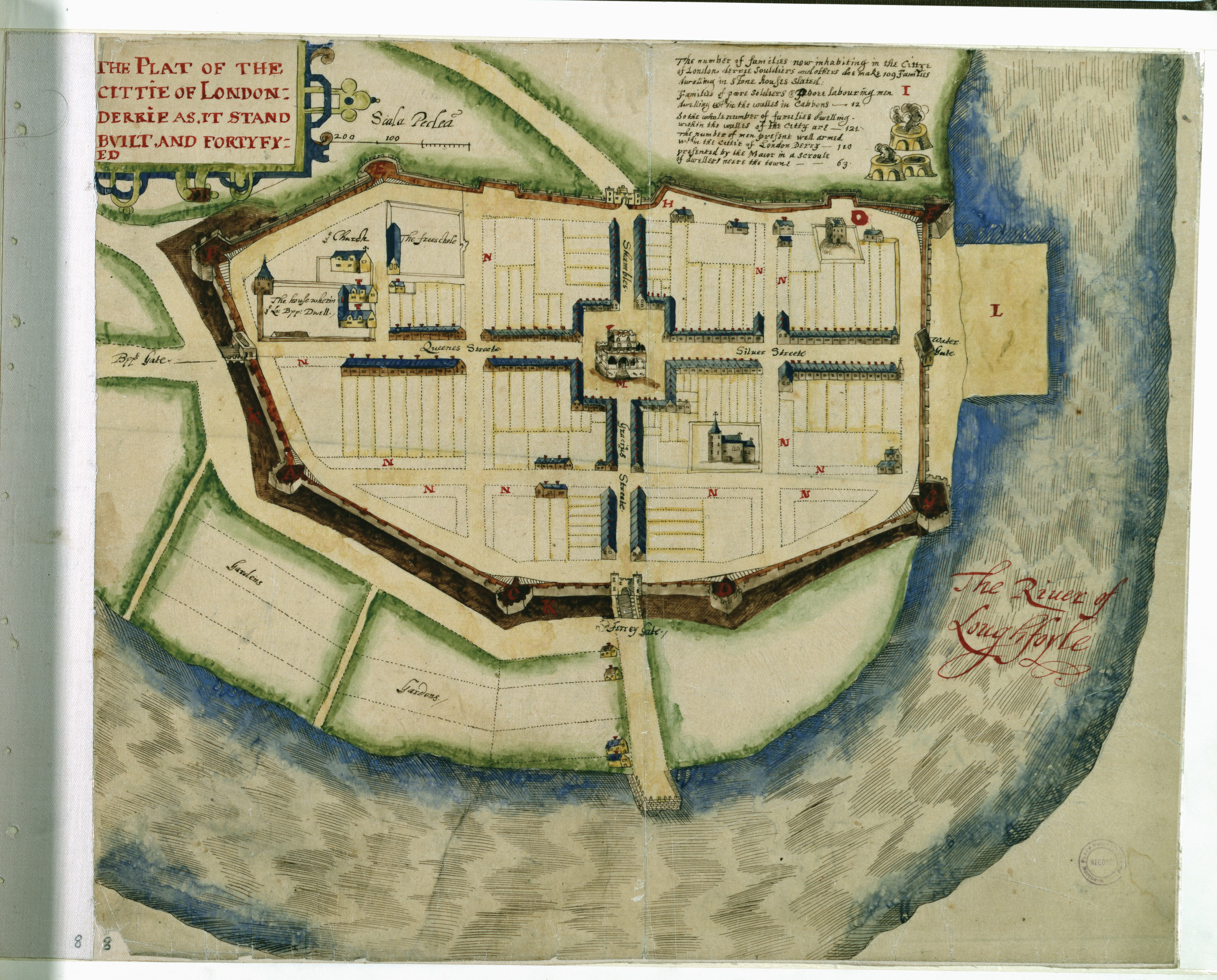 Creator: Sir Thomas Phillips Date: 1836 (traced copies of earlier maps made in 1622) Original Format: Book of traces Description: Map Trace The plat of the Cittie of Londonderrie as it stands built and fortyfied from book of traces from Phillips' surveys and maps - illustrating Londonderry and the London Companies, 1622, made in 1836. PRONI Ref: T510/1/8 NB: The original copies of these maps, dating from 1622 are held by Lambeth Palace Library (Ref: MS 634) Copying and copyright: Please For Copy Orders, contact: For fees and charges